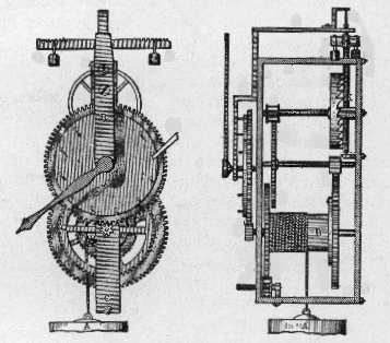 Design drawing of an early clock, probably from the 14th century. This could be the von Wieck clock. Drawing from Originally from Pierre Dubois, Historie de l' Horlogerie, 1849